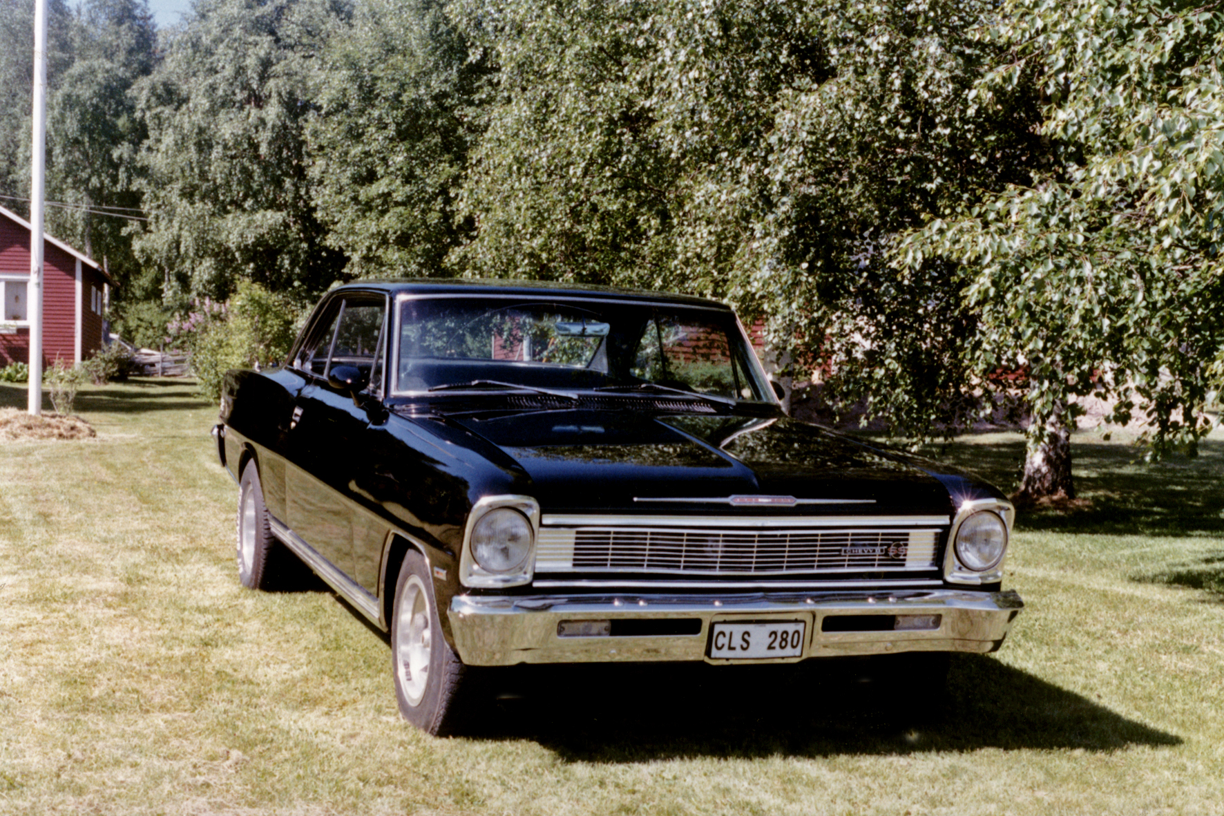 Chevrolet Chevy II / Nova SS -66